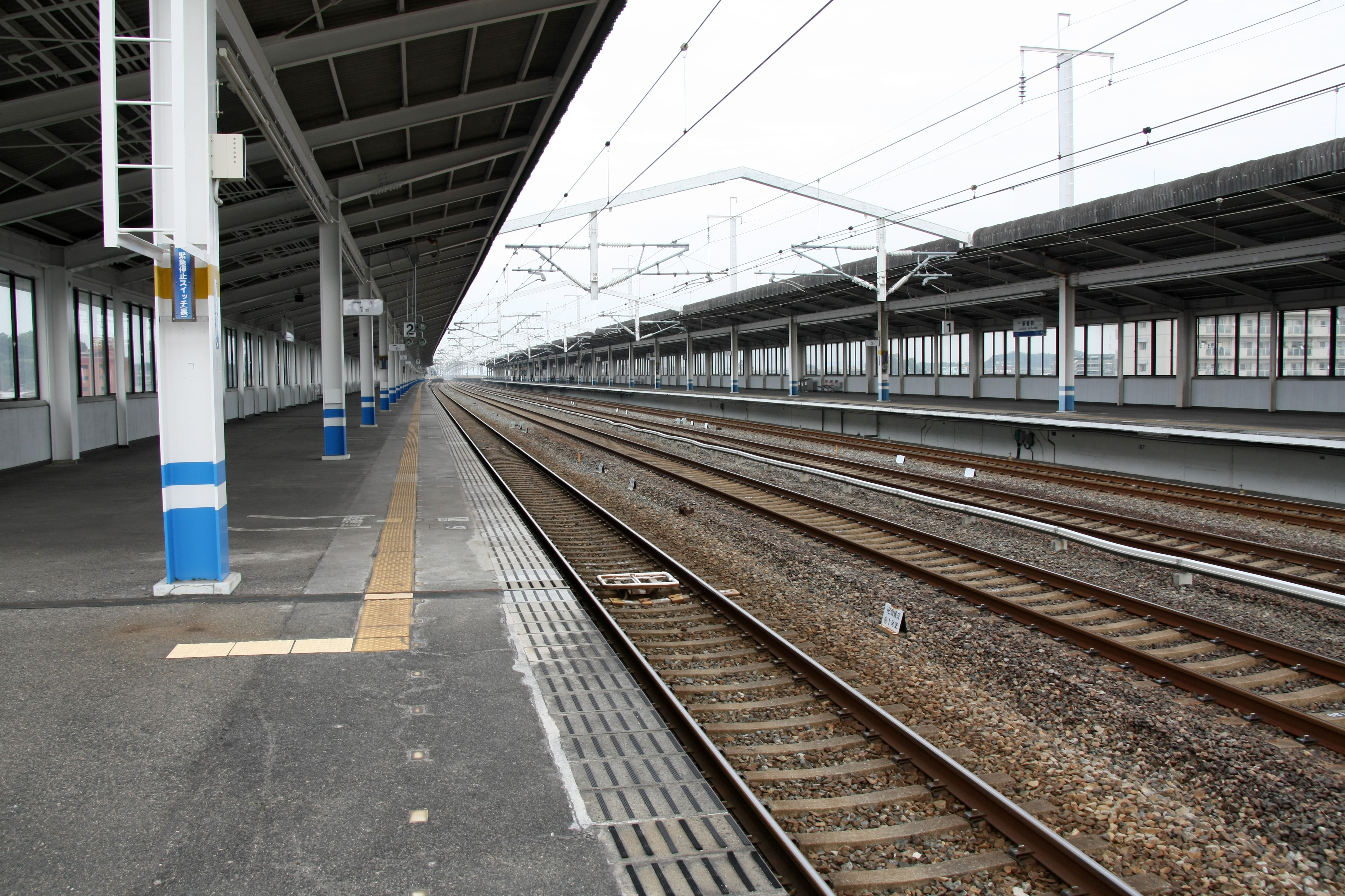 Shin-Kurashiki Station Platform No1,2(Shinkansen)